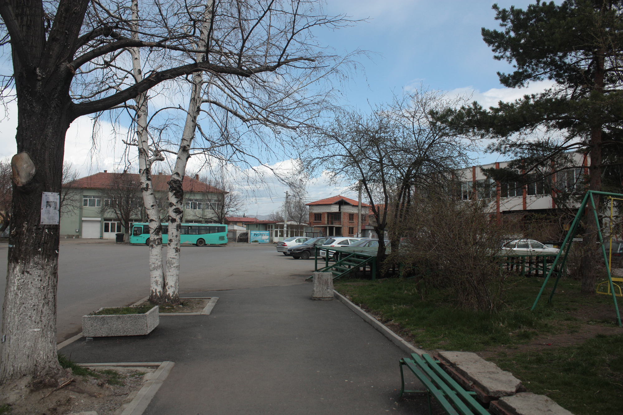 Voluyak center